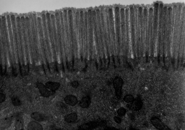 Transmission electron microscope image of a thin section cut through a human jejunum (segment of small intestine) epithelial cell. Image shows apical end of absorptive cell with some of the densely packed microvilli that make up the striated border. Each microvillus is approximately 1um long by 0.1um in diameter and contains a core of actin microfilaments.